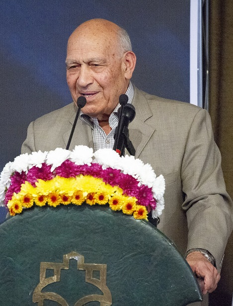 Ardeshir Ghavamzadeh